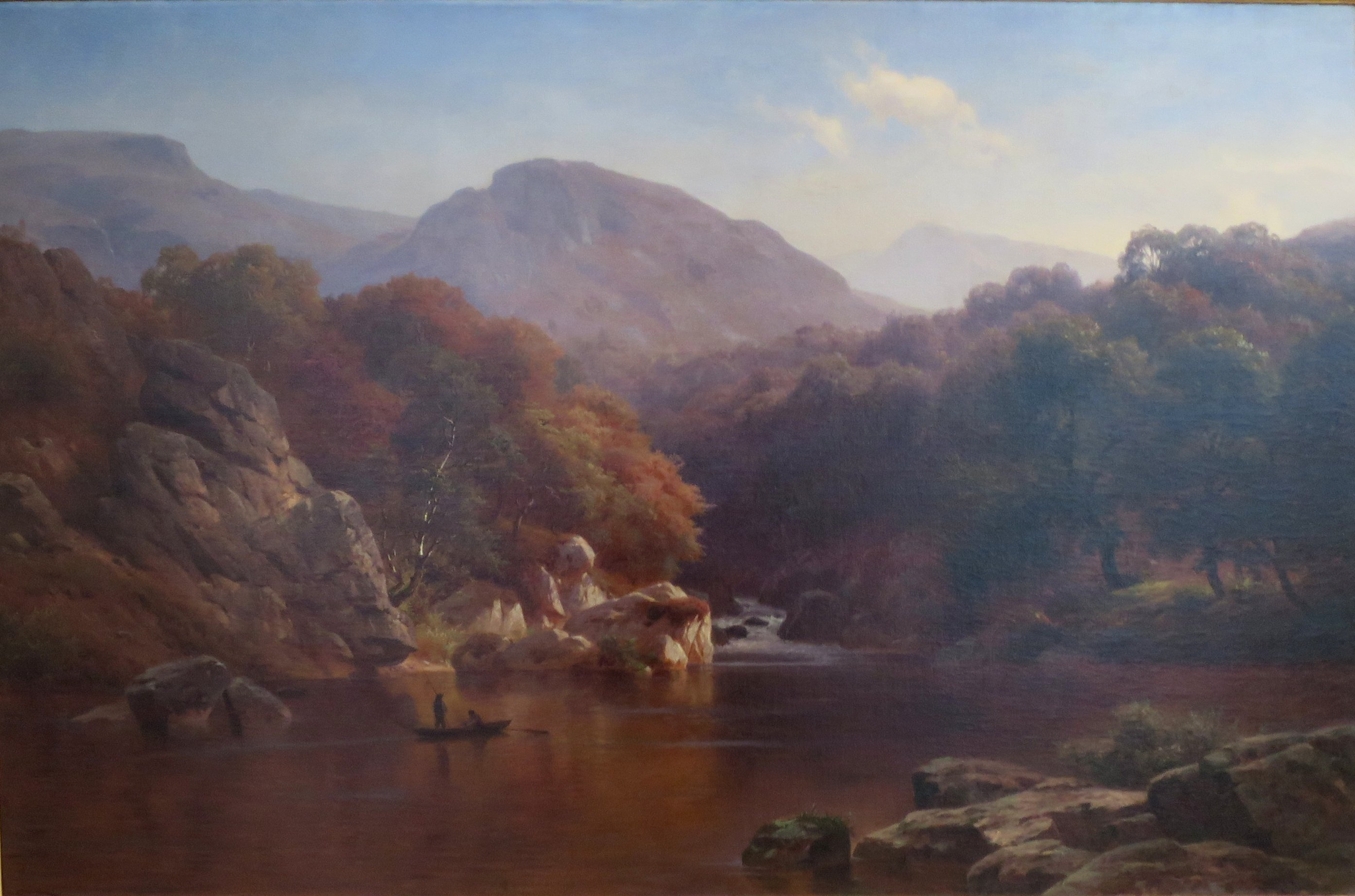 Gottlieb Daniel Paul Weber – Pennsylvania Landscape, 1862, oil on canvas, High Museum of Art